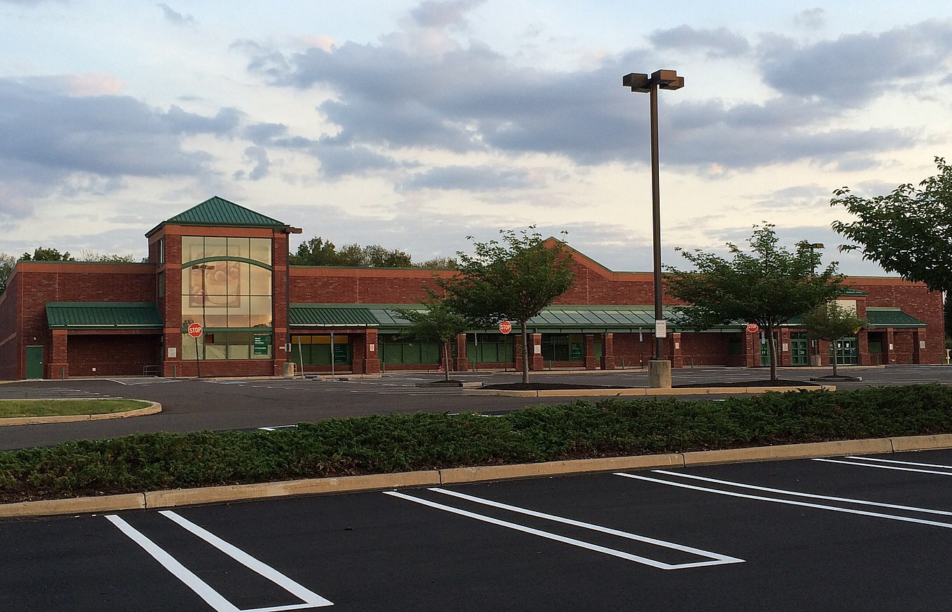 Former Genuardis Store in Bucks County PA